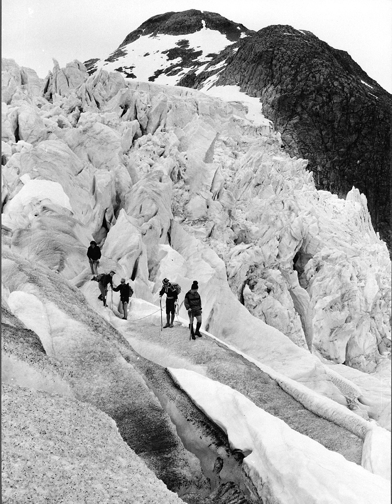 Photo from National Archives of Norway's Flickr-Album "Reiser i Norge" ("Traveling in Norway"). All images are marked with "No known copyright restrictions".